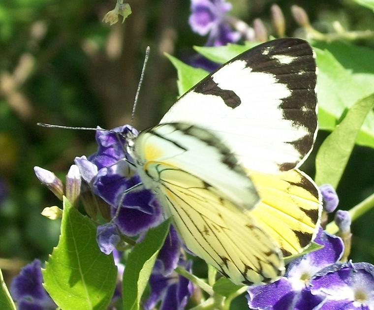 Female Belenois zochalia from the Karkloof area of KwaZulu-Natal, South Africa.